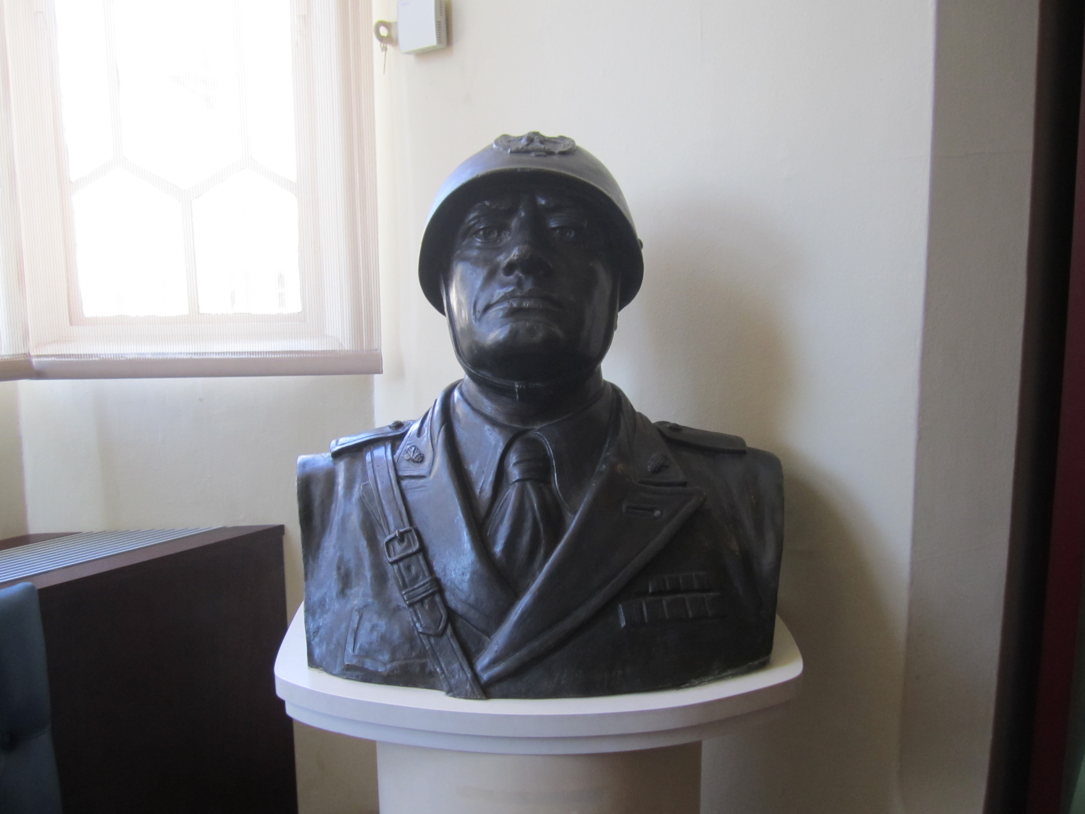 Mussolini at the White Tower, Tower of London, London